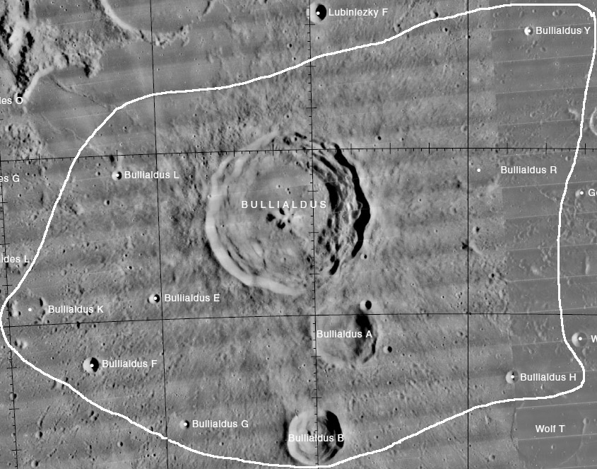 Bullialdus satellite craters